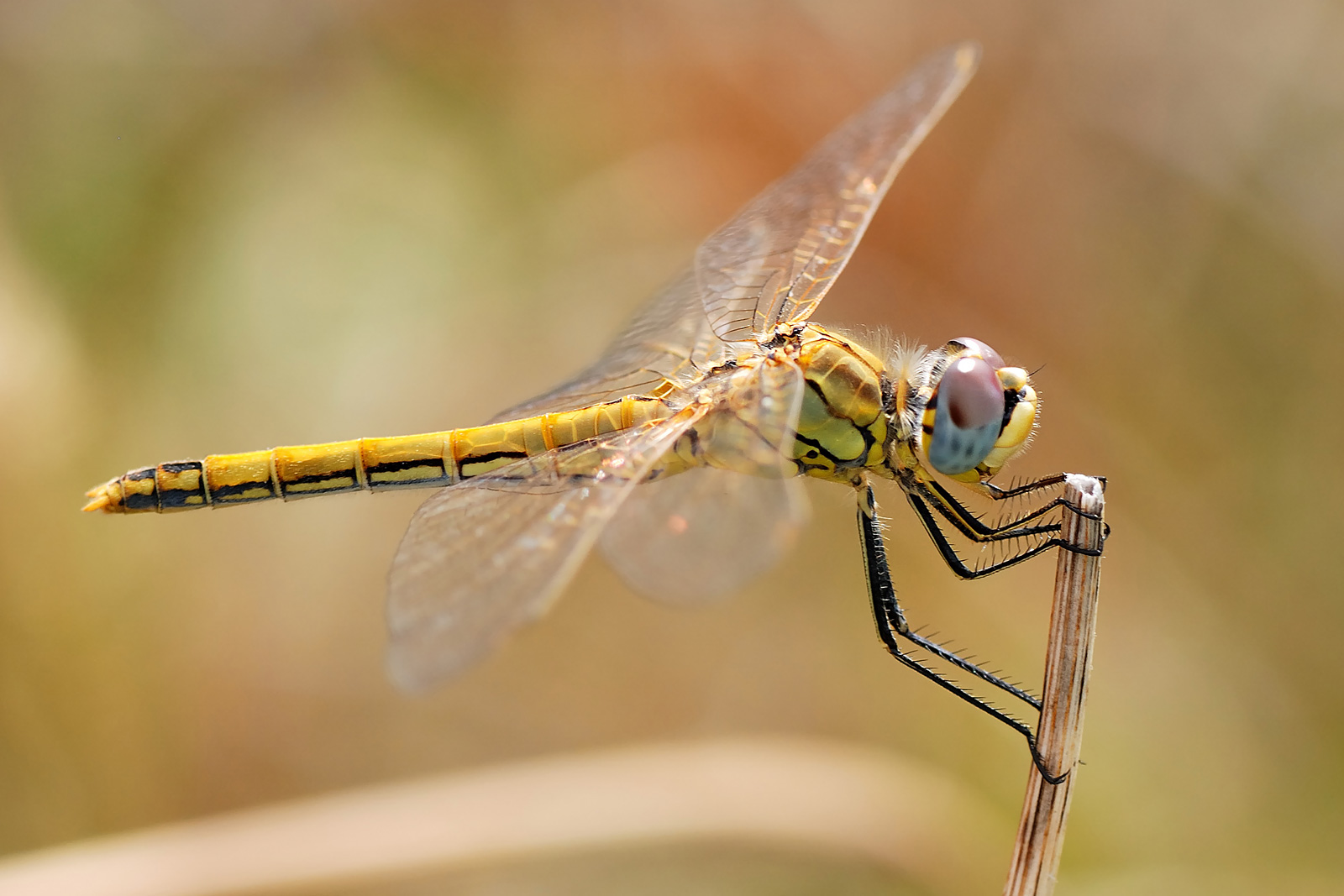 Female Red-veined darter dragonfly (Sympetrum fonscolombii)